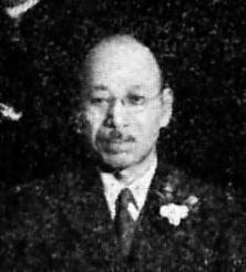 General Tashiro Kanichiro (1881-1937)